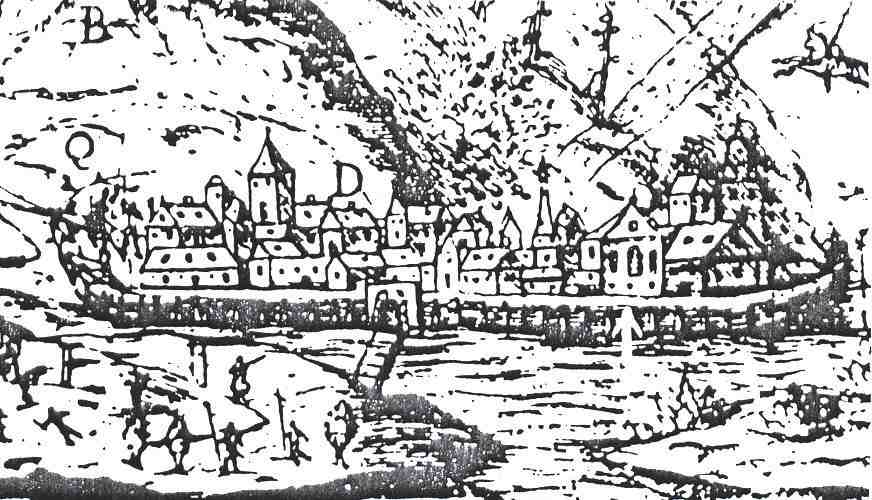 View of Esztergom by Ruda János, Hungary